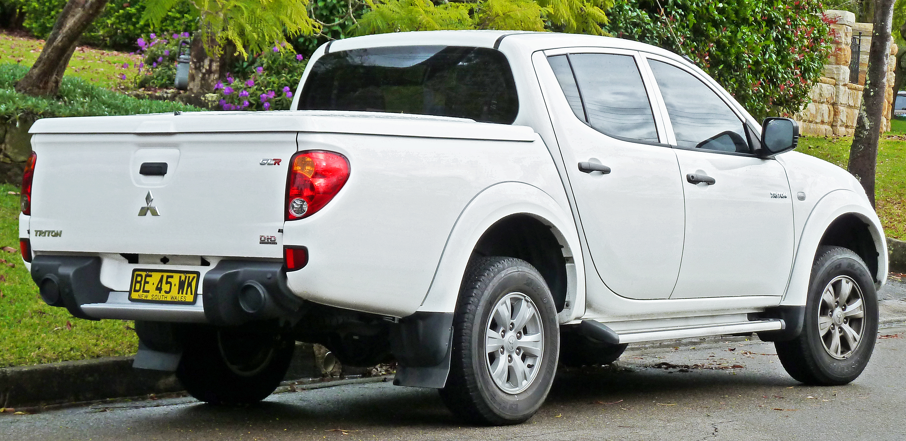 2009–2011 Mitsubishi Triton (MN) GL-R 4-door utility. Photographed in Killara, New South Wales, Australia.